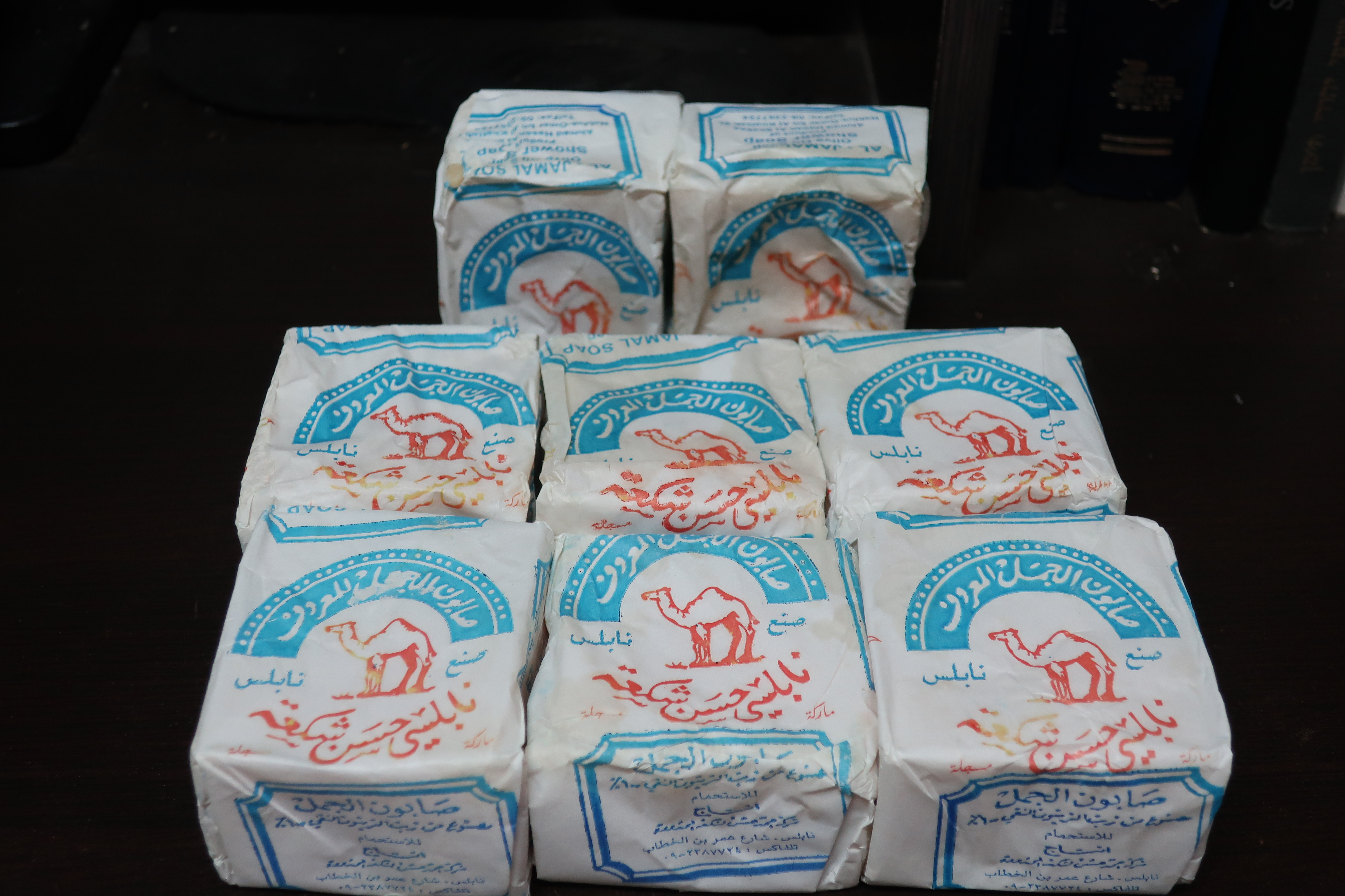 Olive-oil and potash soap made in Nablus (castile soap )